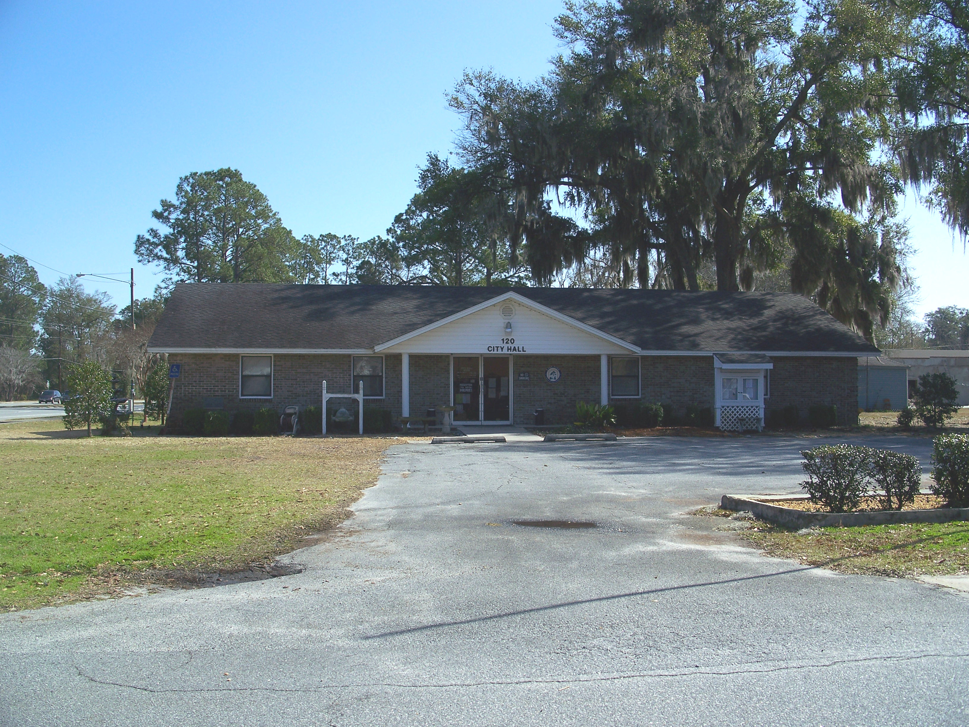 Lake Park, Georgia: City hall.